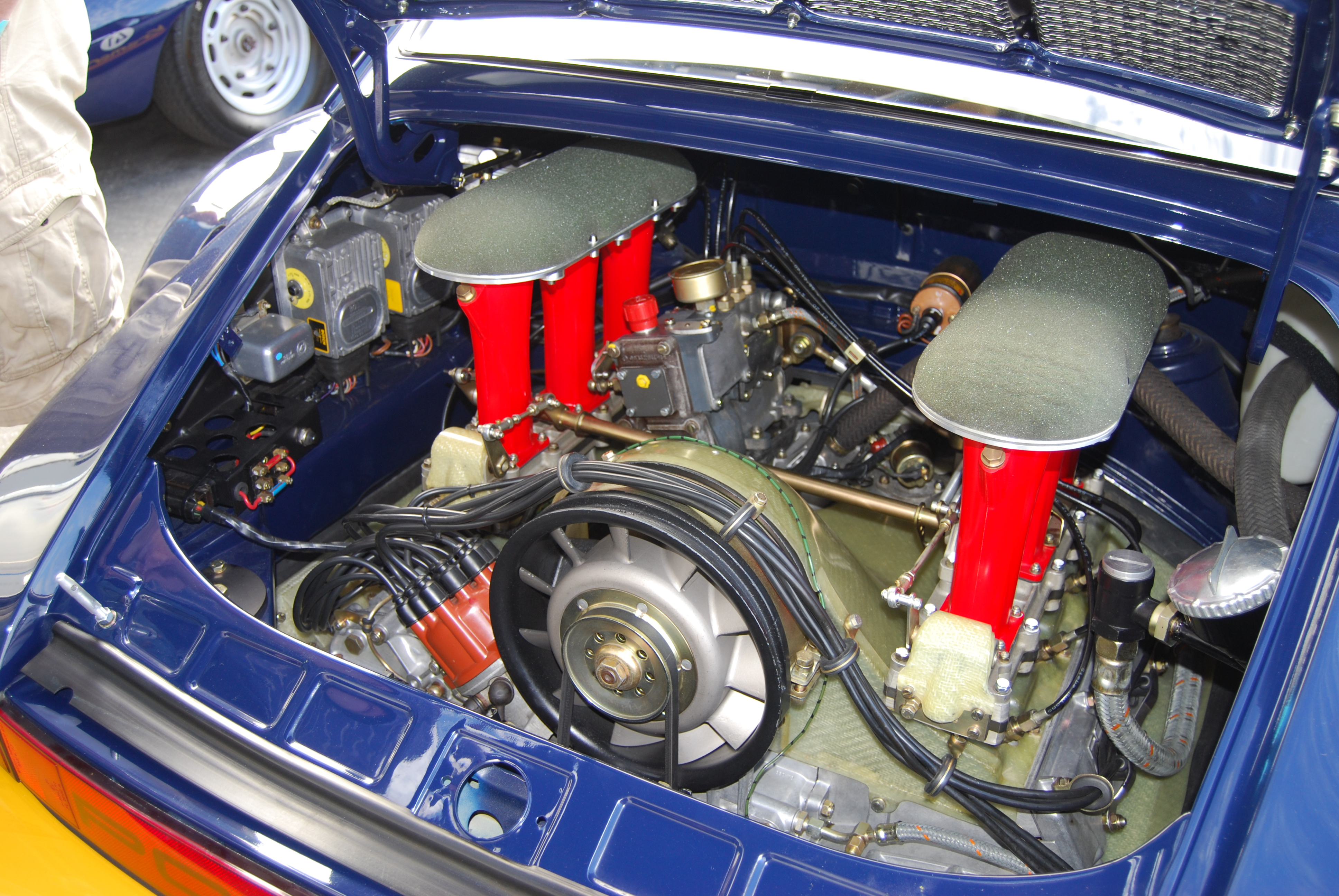 This is a real high-performance item - intakes are tuned to deliver maximum airflow at a useful point in the rpm/torque curve, the cooling air shroud over the engine is bare fiberglass and resin, unpainted, this jewel features slide throttles, nothing blocking the flow when ride-open, AND twin ignition (count the wires on the distributor cap); AND mechanical fuel injection. DSC_0264